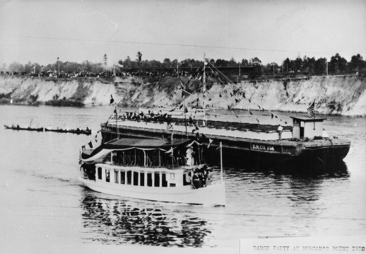 barge party on Buffalo Bayou at Morgan's Point with boats of different sizes in the water: a large barge, a mid-size yacht and several canoes. Unidentified people are in the boats and a large crowd of people is visible on top of the opposite bank where a train can be seen.